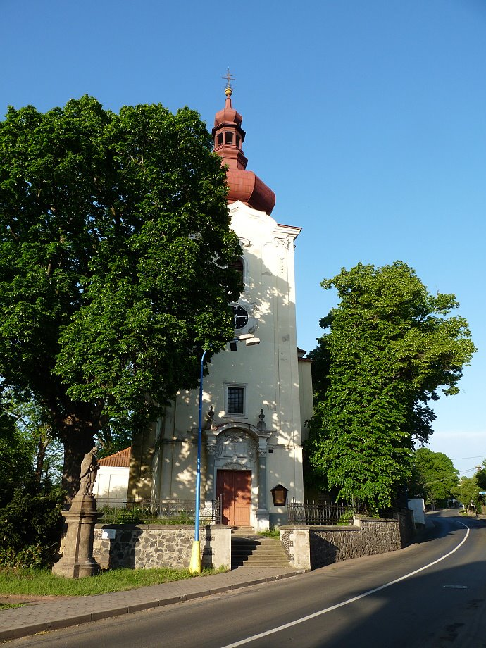 Holy Trinity Church in Řehlovice, Czech Republic